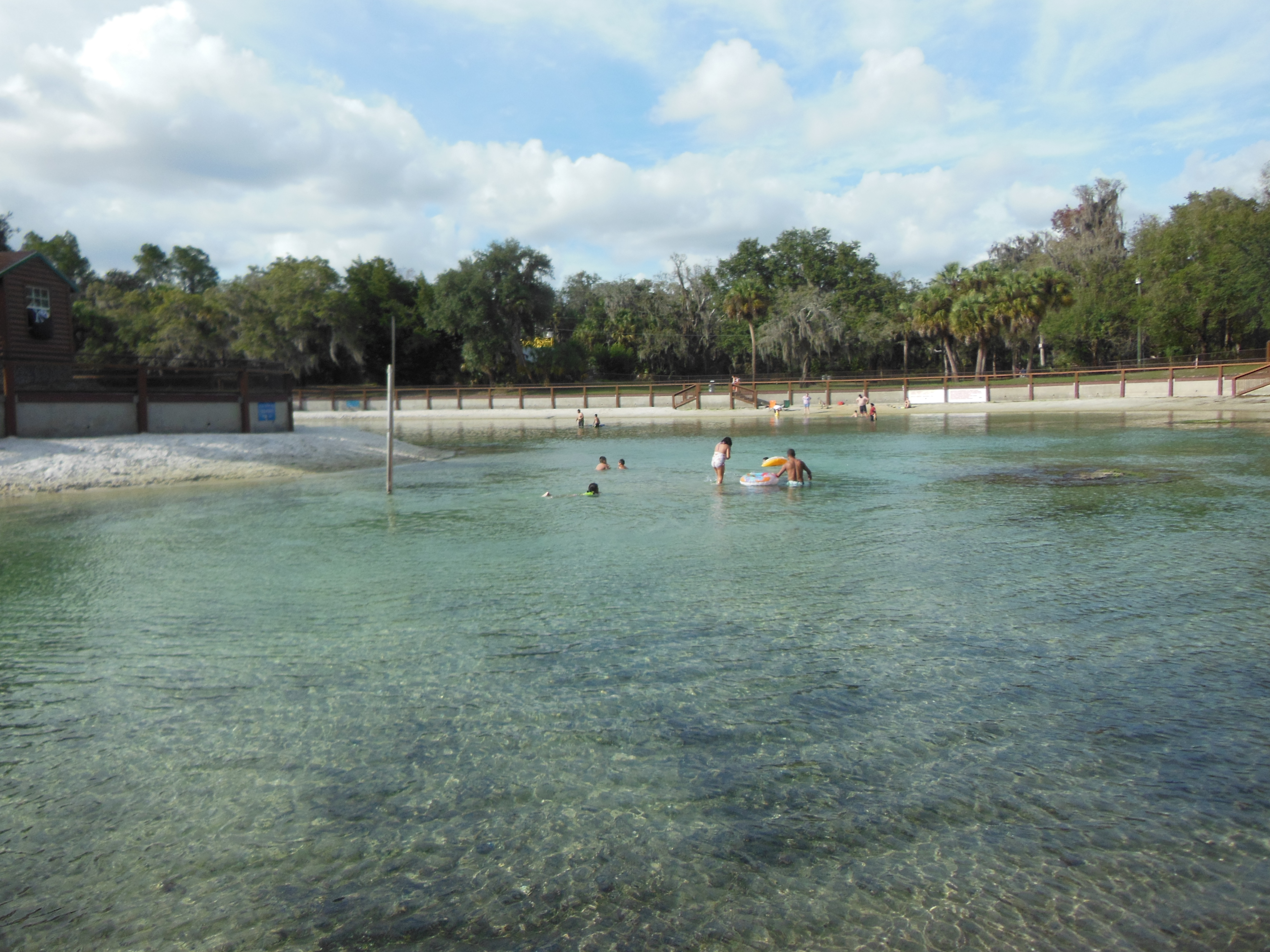 The swimming area at Lithia Springs Park, Florida January 4, 2015